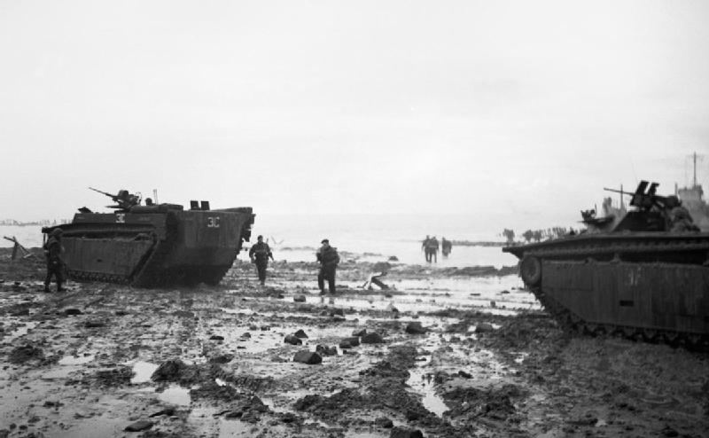 The British Army in North-west Europe 1944-45 LVT Buffalo amphibians during the invasion of Walcheren Island, 1 November 1944.